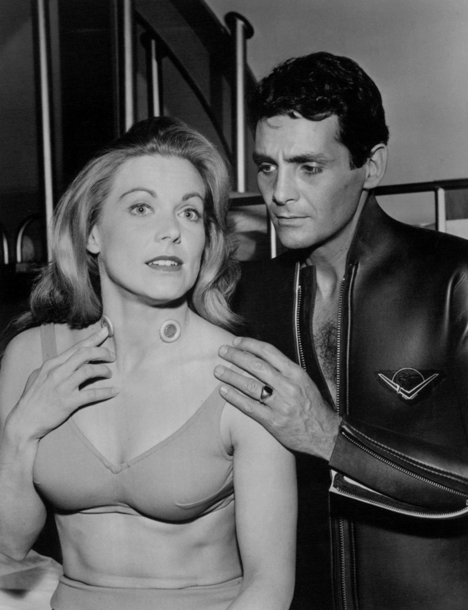 Photo of David Hedison and Zale Parry from the television series Voyage to the Bottom of the Sea.